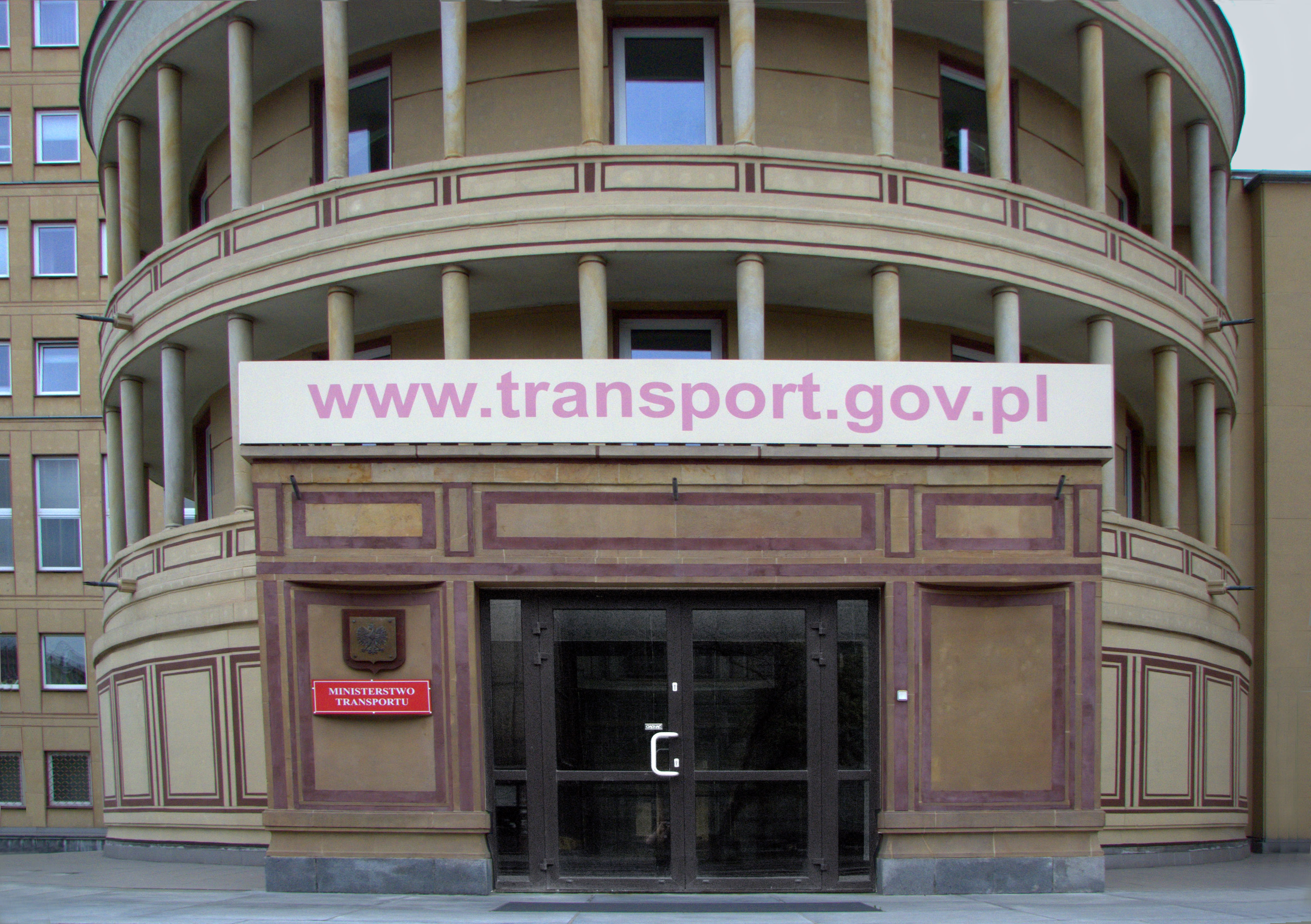 The ministry of Transport in Warsaw, Poland